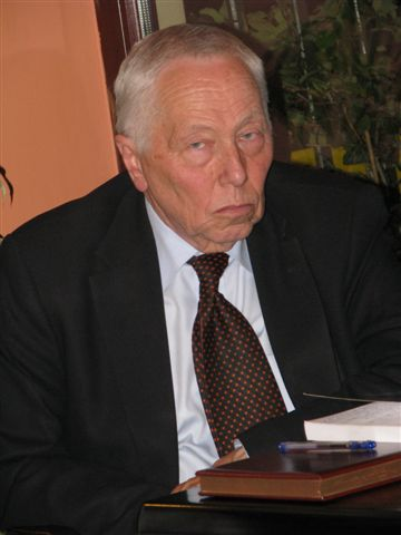 Marcin Libicki (b. 1939), Polish historian of art and politician